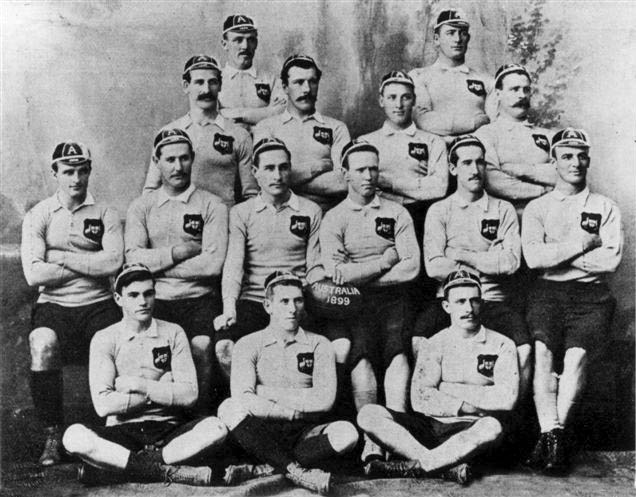 The Australian rugby union team, wearing the light blue jersey.